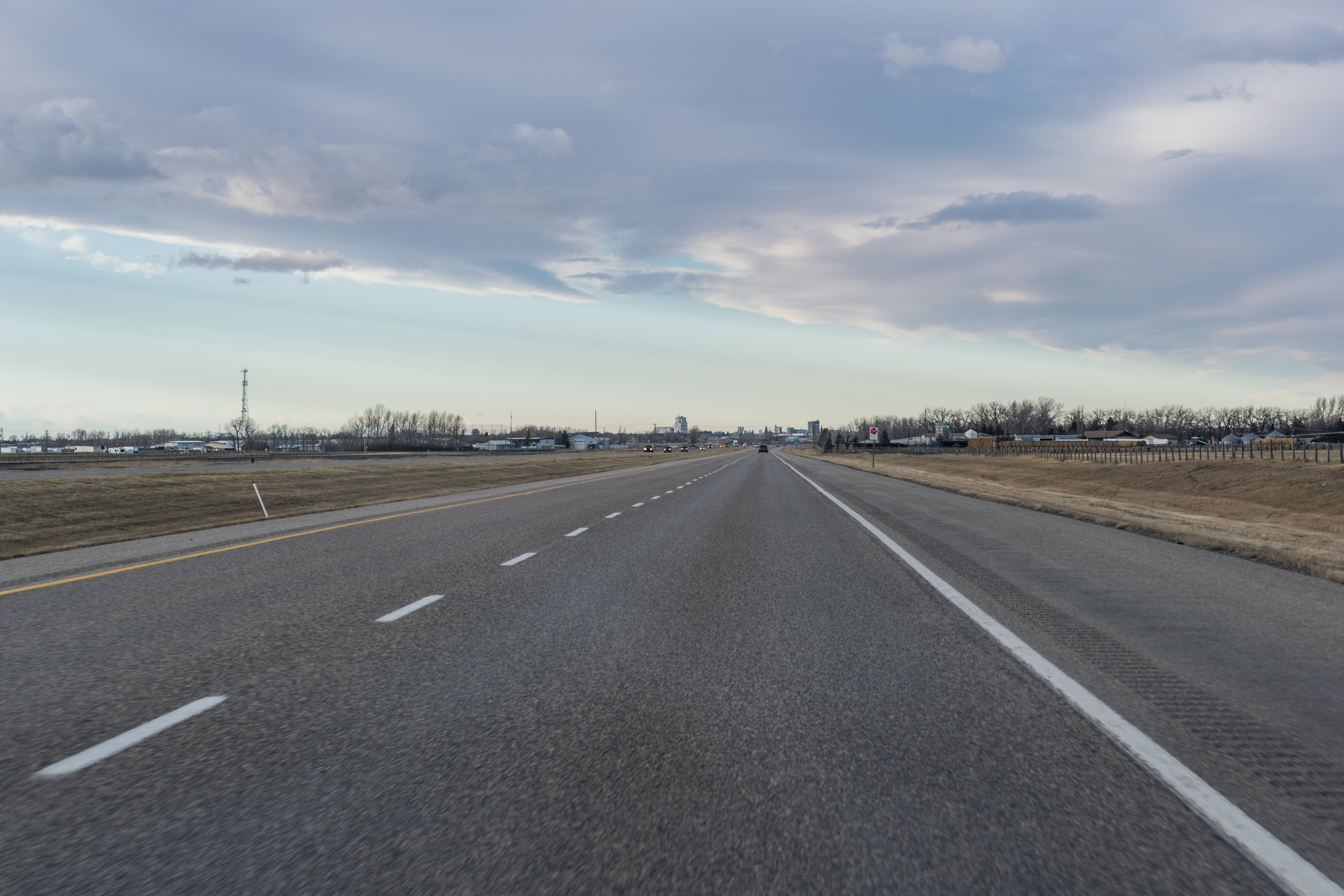 Northbound Highway 4 in Alberta several kilometers before Lethbridge.